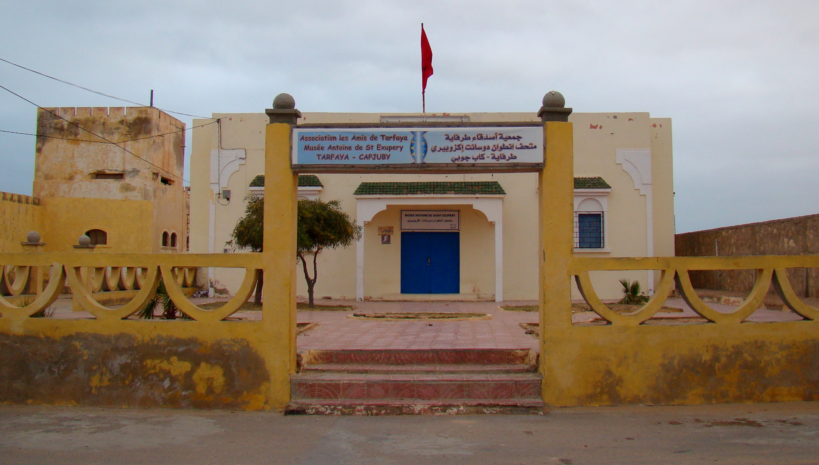 The museum dedicated to Antoine de Saint Exupery and the Aeropostale service, in Tarfaya, Morocco.